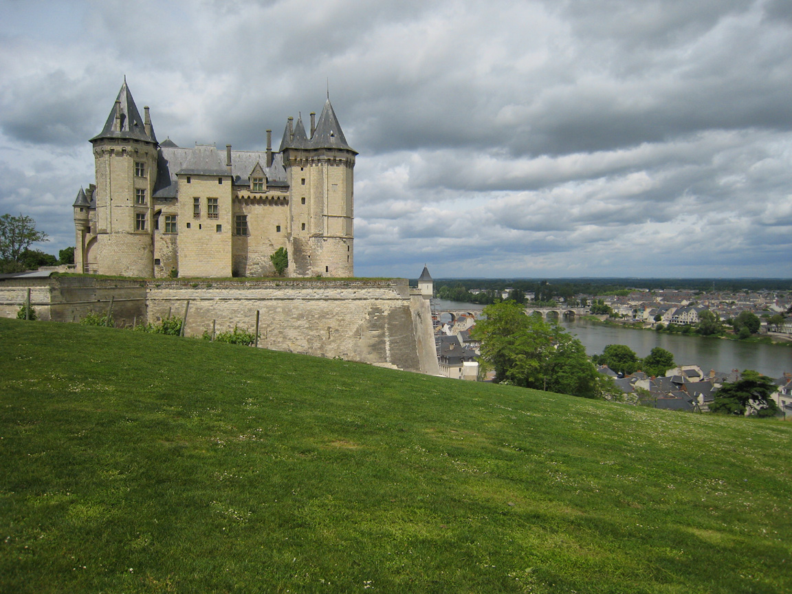 Town of Saumur in France, Castle Saumur above town and the Loire river